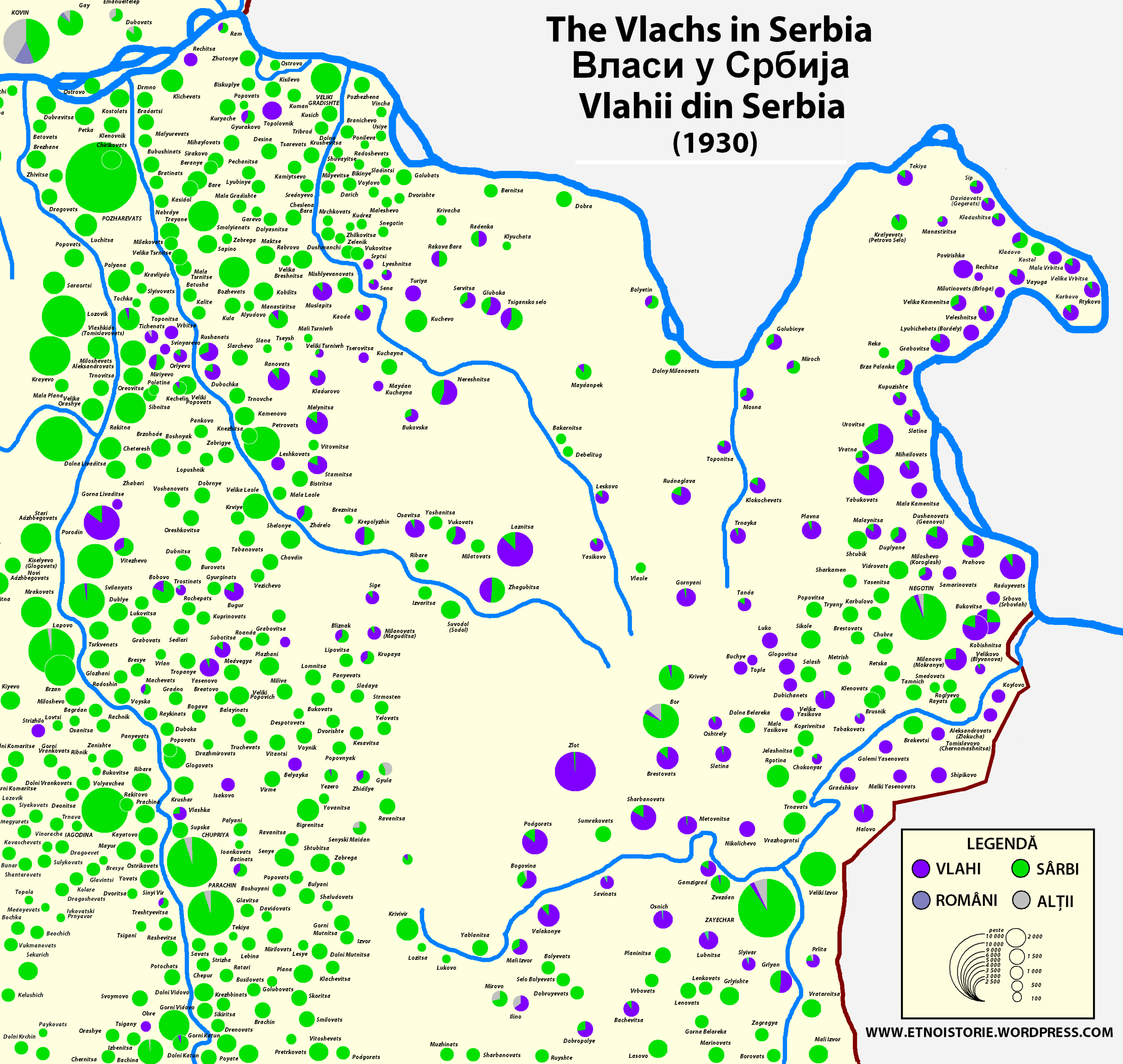 Vlachs in Yugoslavia (today Serbia), 1930